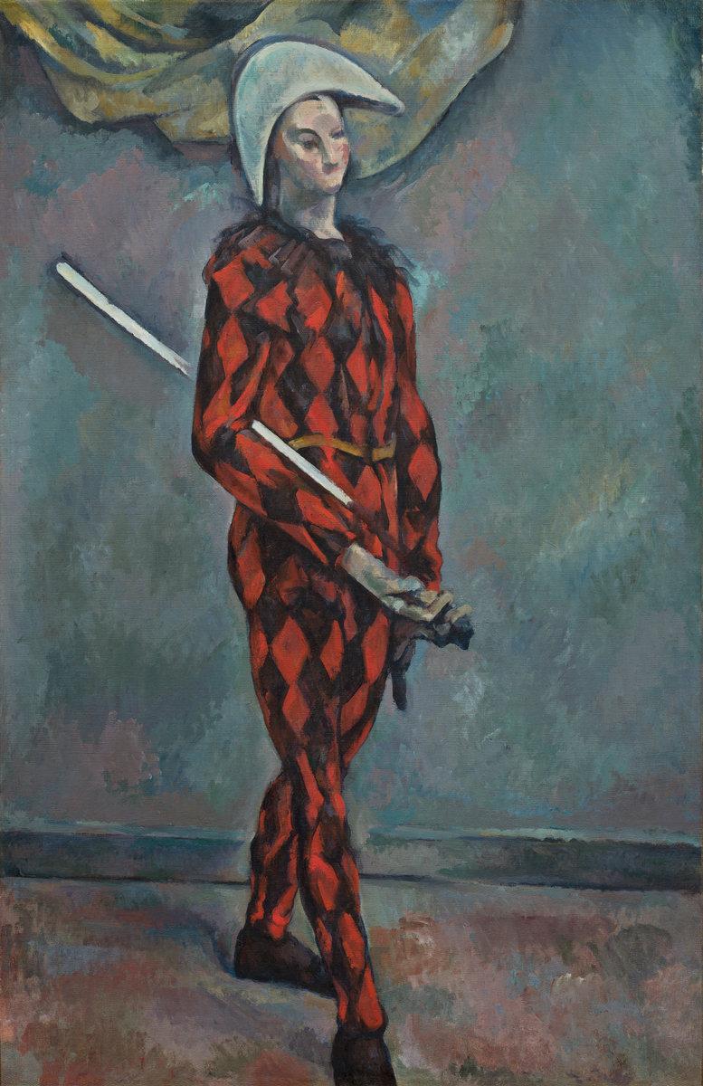 Paul Cézanne (French, 1839 - 1906 ), Harlequin, 1888-1890, oil on canvas, Collection of Mr. and Mrs. Paul Mellon